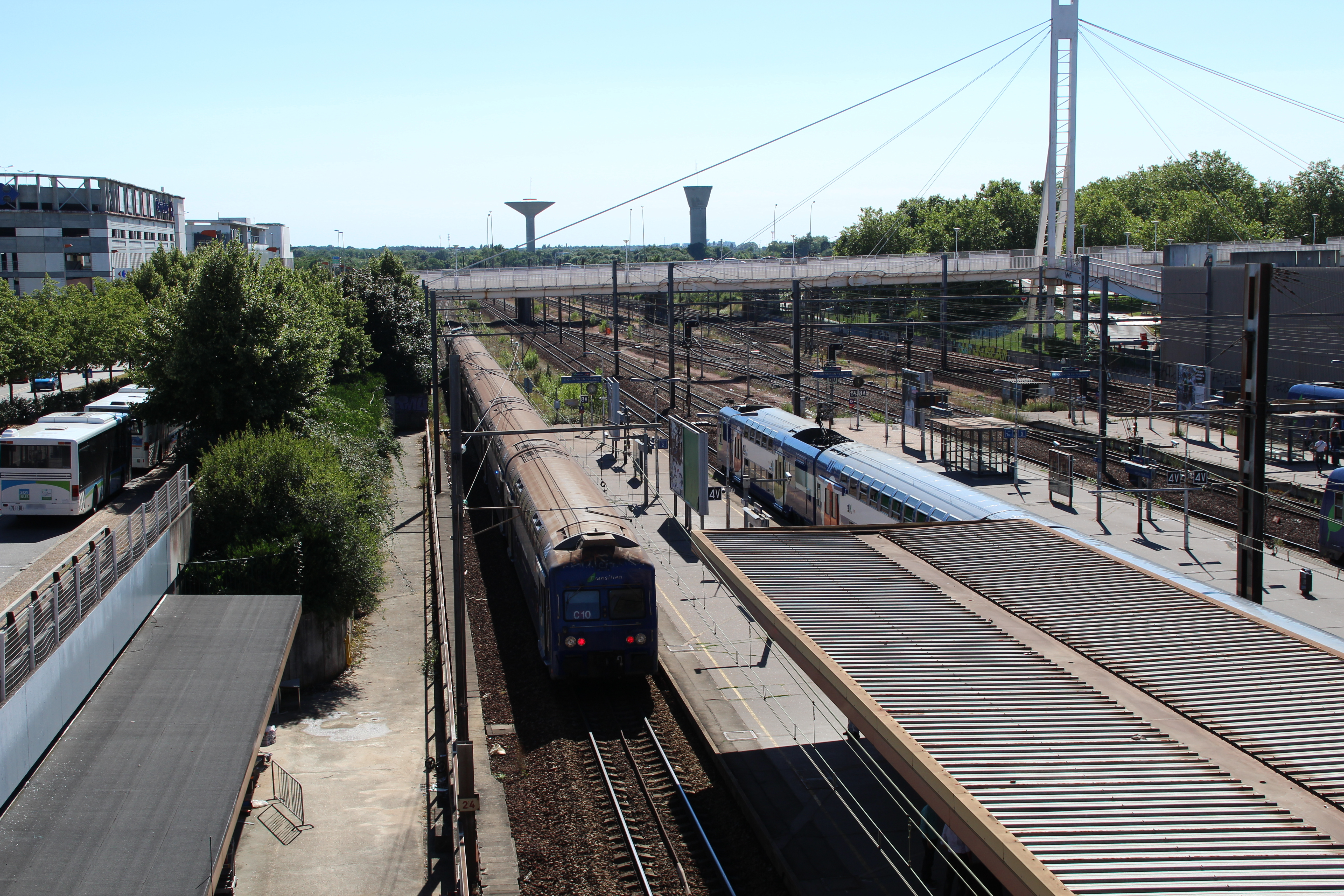 Train station Gare de Saint-Quentin-en-Yvelines - Montigny-le-Bretonneux located in Montigny-le-Bretonneux, France, being rebuild in august 2013.